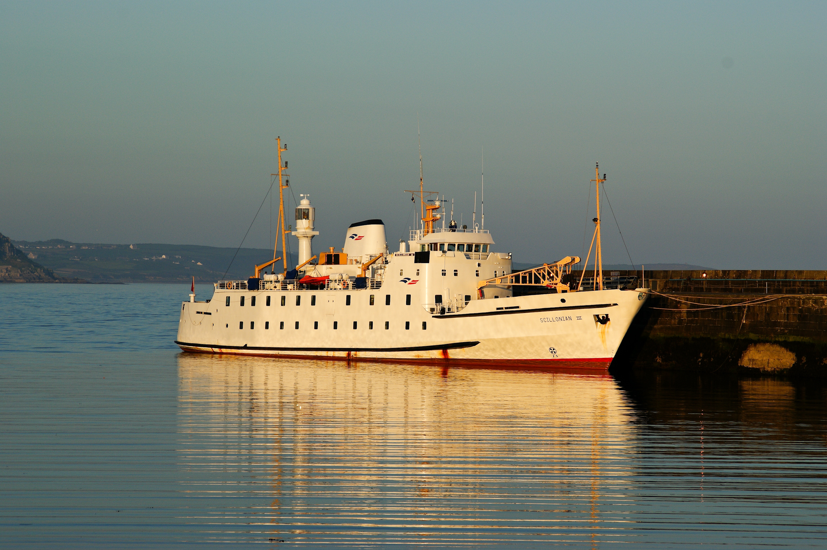 Scillonian III moored at Penzance South Pier in Cornwall, UK.